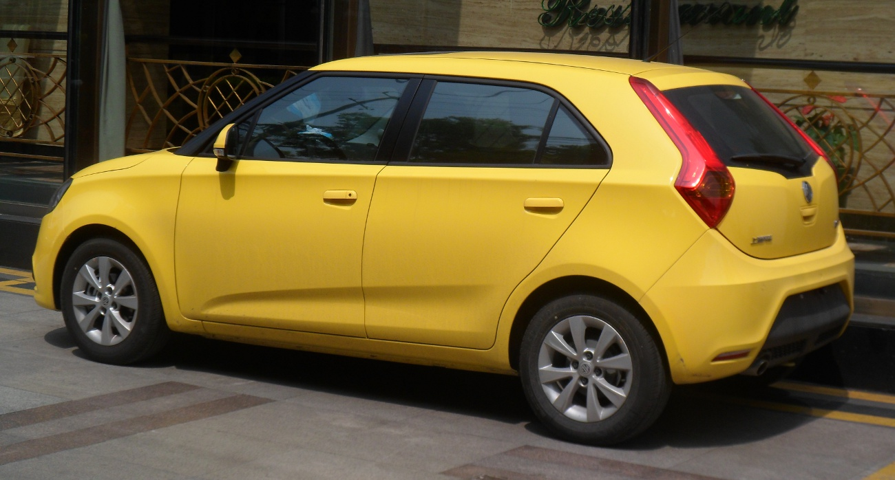 MG 3 II photographed in Shanghai, China.